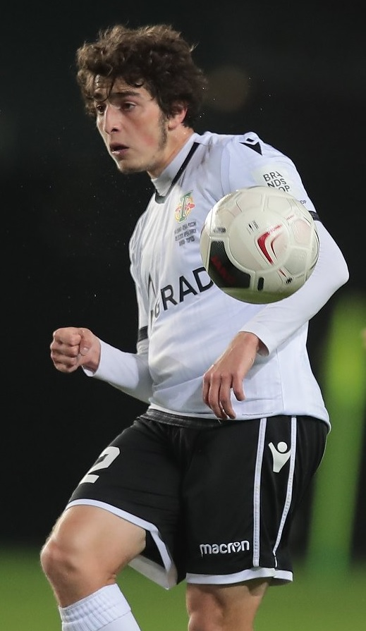 Astemir Gordyushenko with FC Torpedo Moscow in a Russian Cup quarterfinal against FC Khimki.